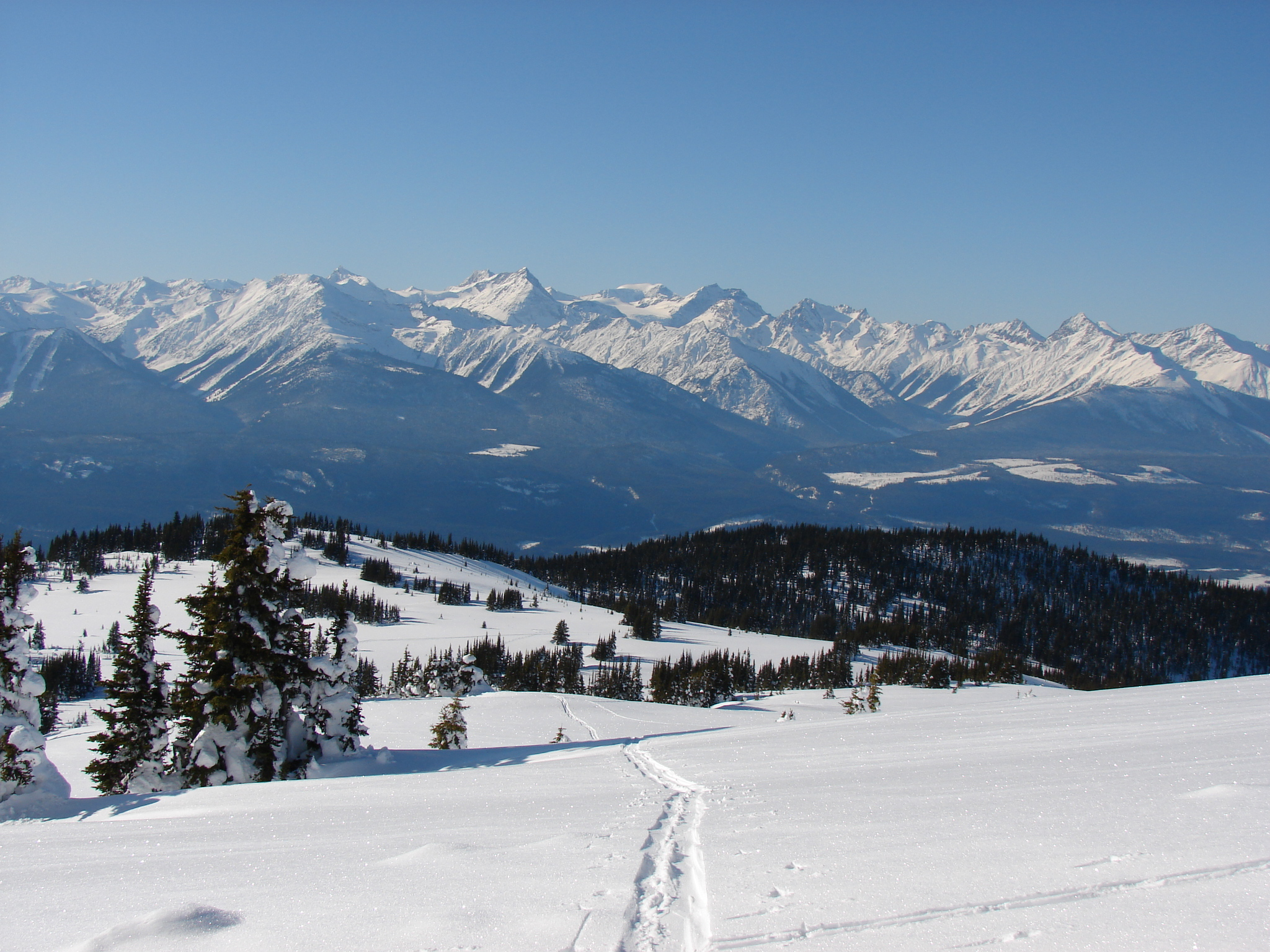 Looking W at the Premier Range of the Cariboo Mountains from Mt. McKirdy, Valemount, BC